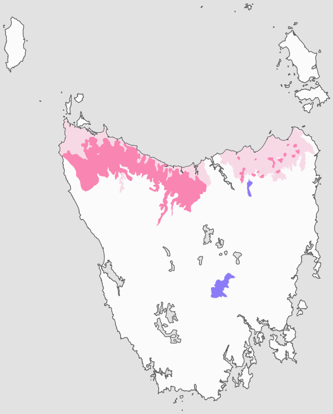 Simplified representation of a modelled population distribution map.Magenta: Species likely to occur. Light pink: Species may occur. Purple: Translocated populations.